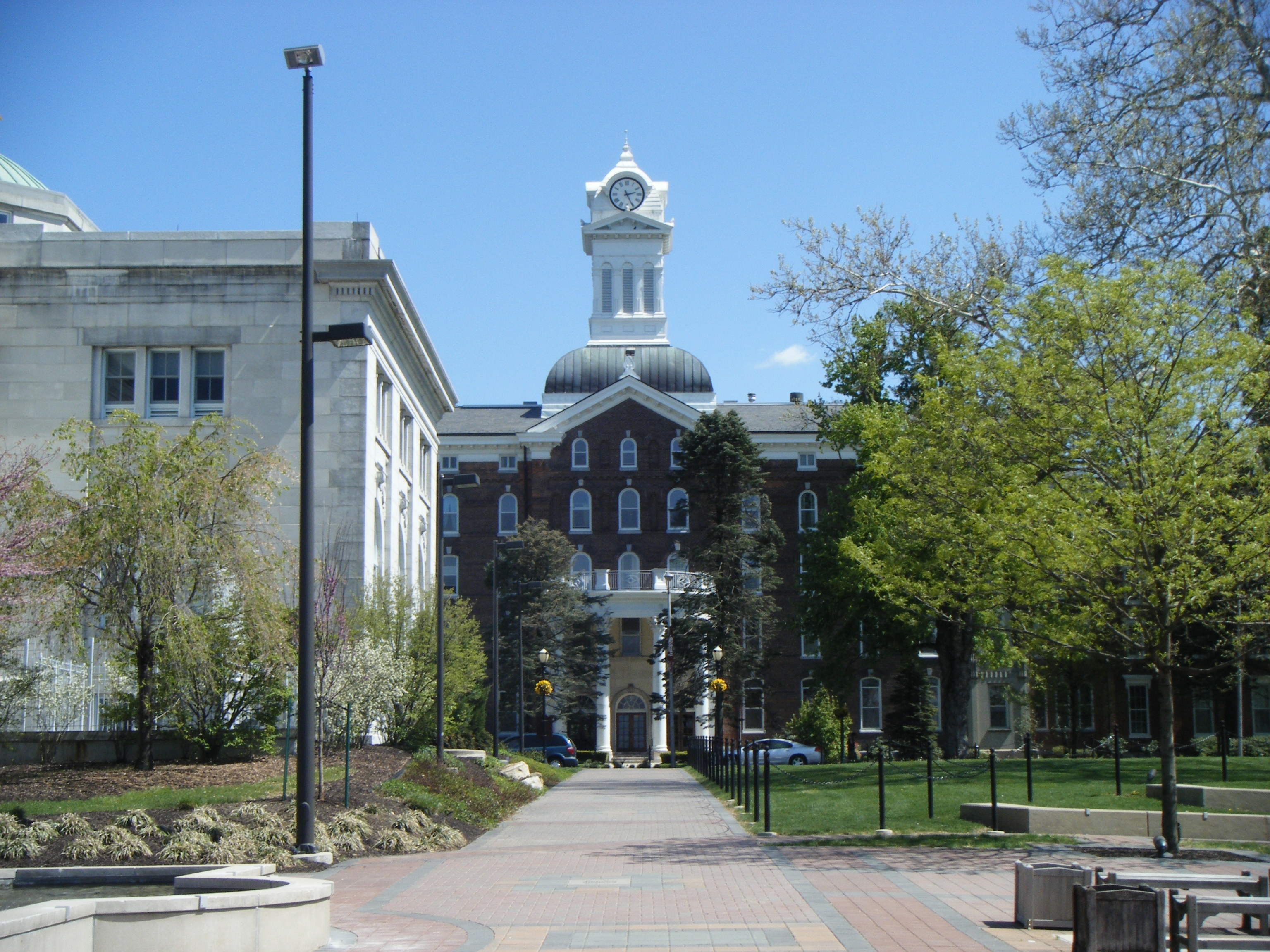 A view of Old Main at Kutztown University of Pennsylvania from Alumni Plaza.